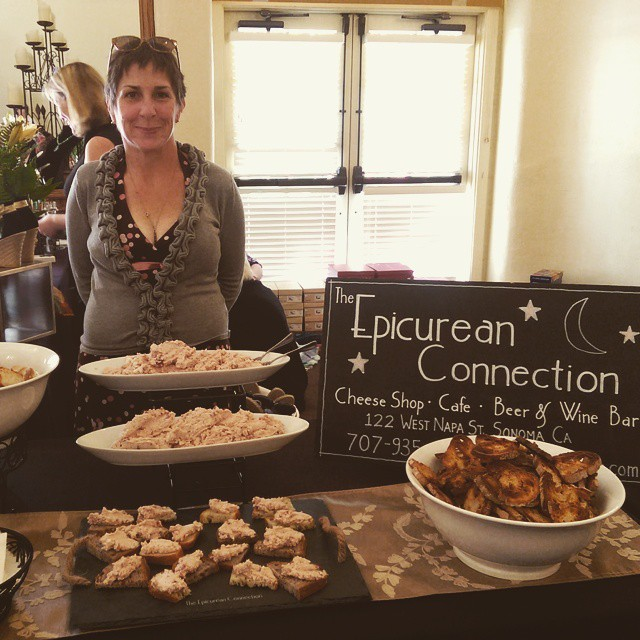 Sheana Davis in 2015